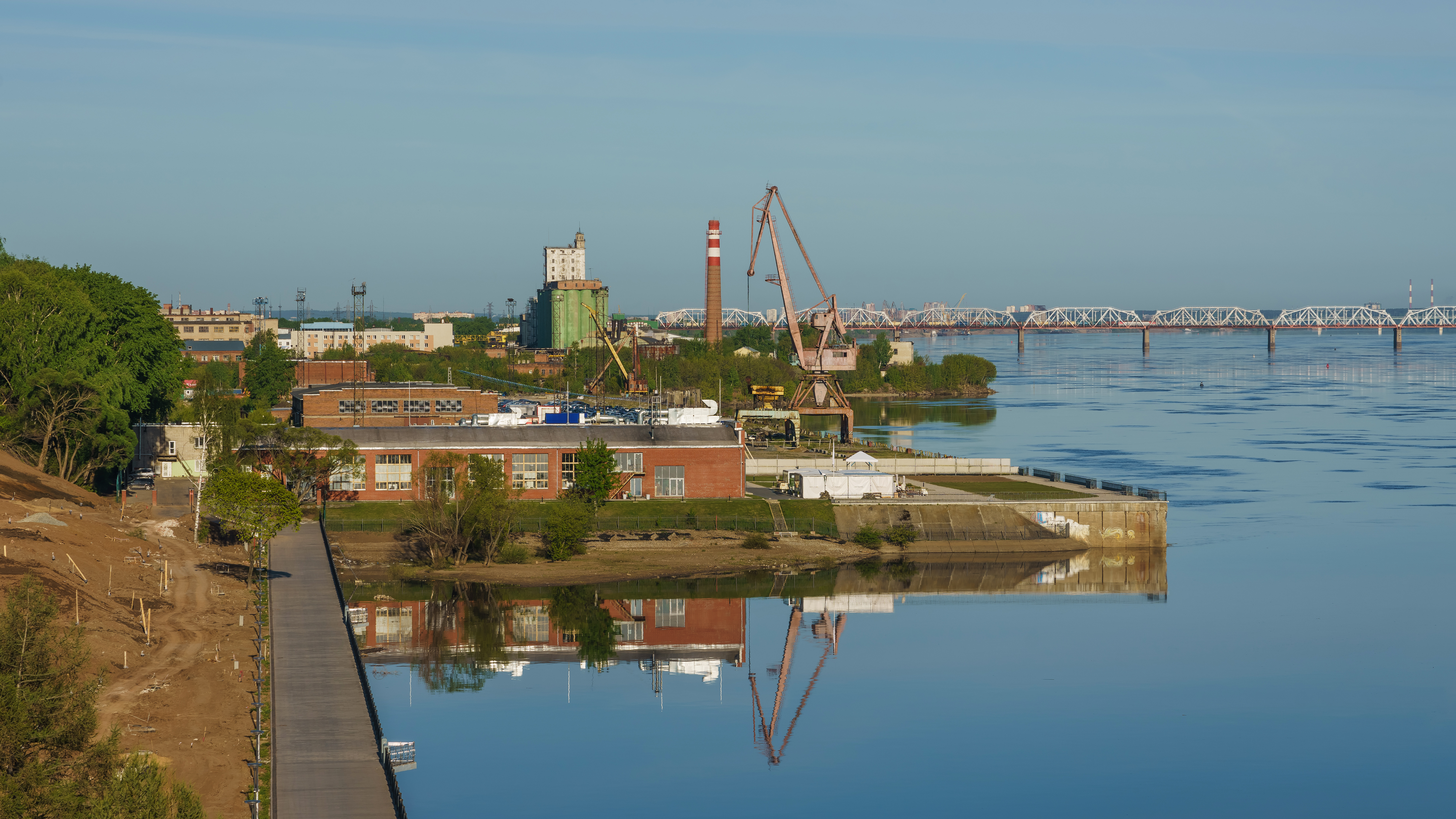 Kama River port (in the background: railway bridge) in Perm, Russia